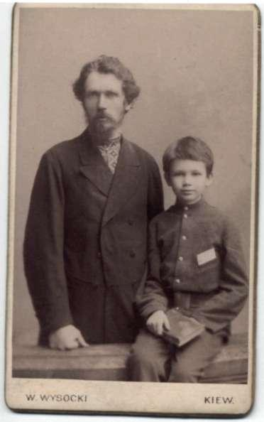 Alexander Bogomolets (1850-1935) and his son Alexander before the journey to Siberia.